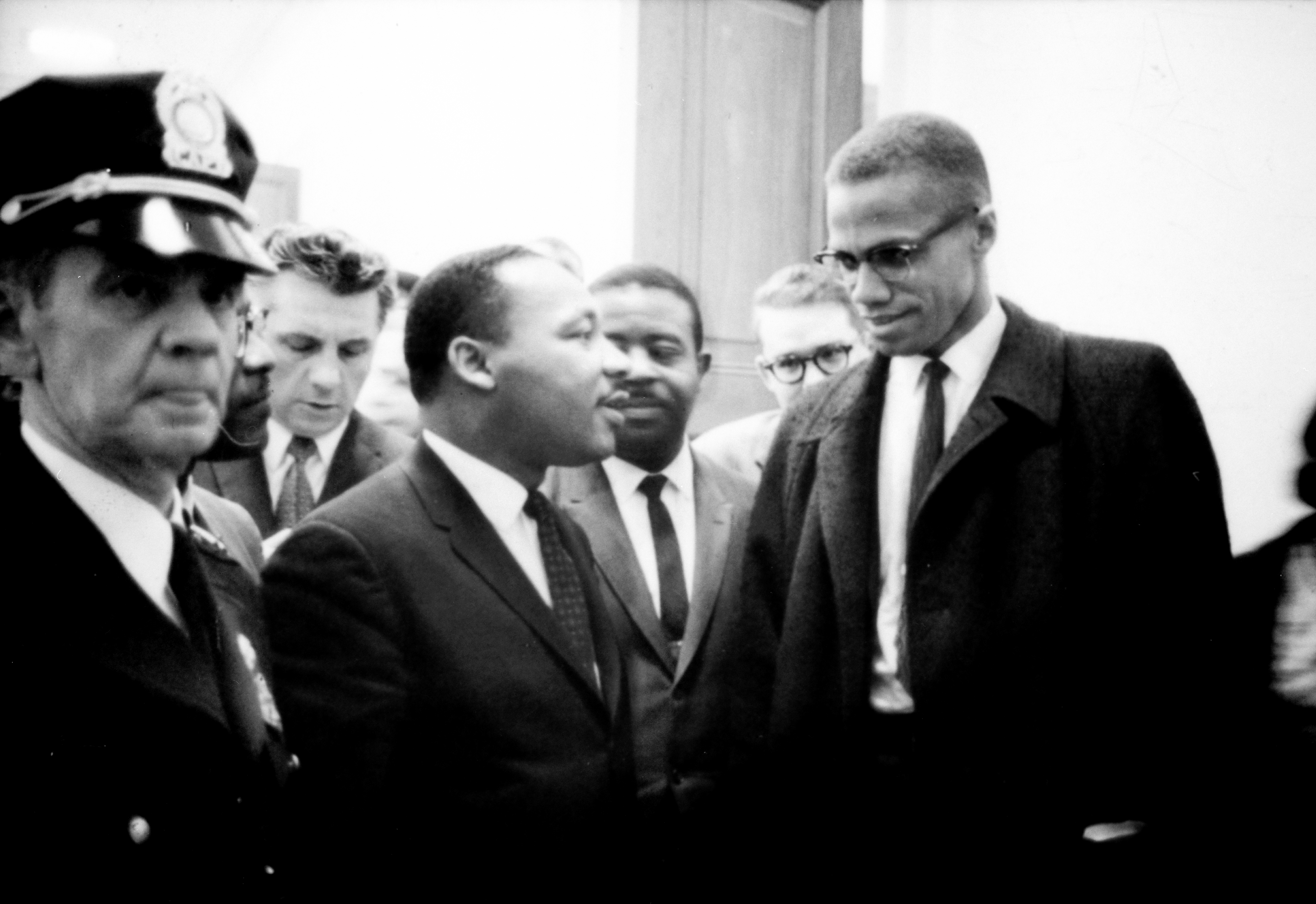 Martin Luther King and Malcolm X waiting for press conference.